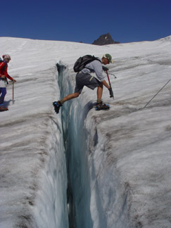 Crossing a crevasse, Easton Glacier, North Cascades (Pelto